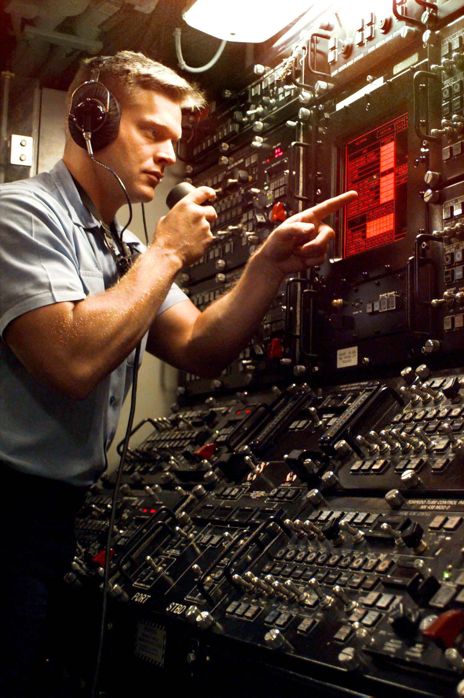 At sea aboard USS Seawolf (SSN 21) Jul. 16, 1997 -- Fire Technician 3rd Class Shea Keesee of Oklahoma City, OK, stands the battle station watch. Keesee operates the missile launch console which uses the latest touch screen technology. Photo by Chief Photographer's Mate John E. Gay. (RELEASED)